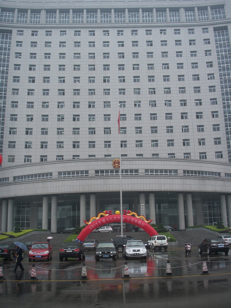 prefectural office building